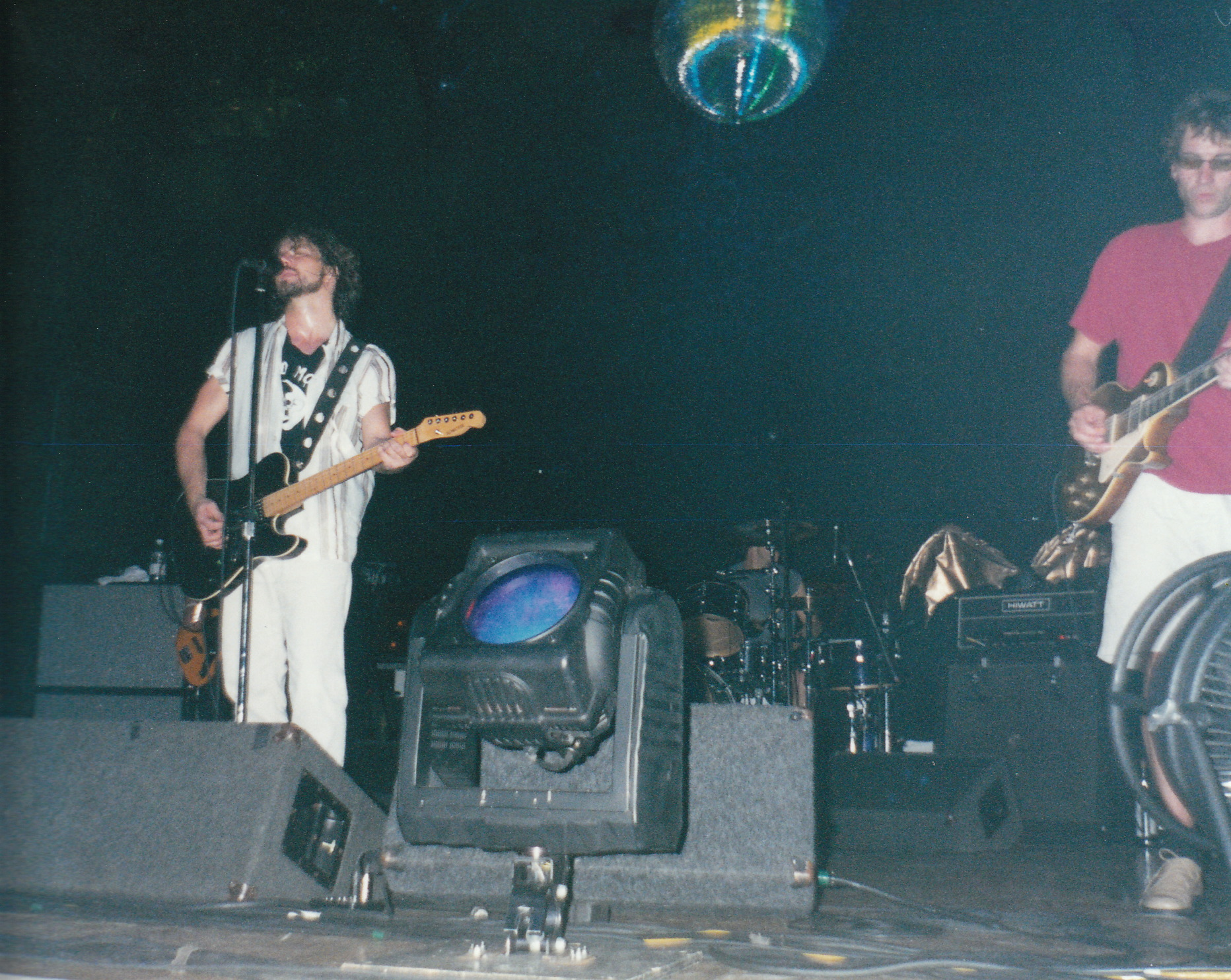 Eddie Vedder and Stone Gossard 2000